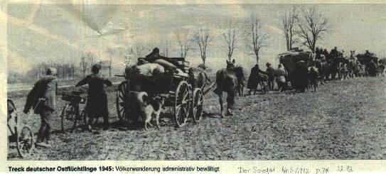 This photograph was published in the magazine "Der Spiegel", Nr. 3, 1982, page 74. The photo is from the NARA (National Archives, Washington USA) collection, and in the public domain.